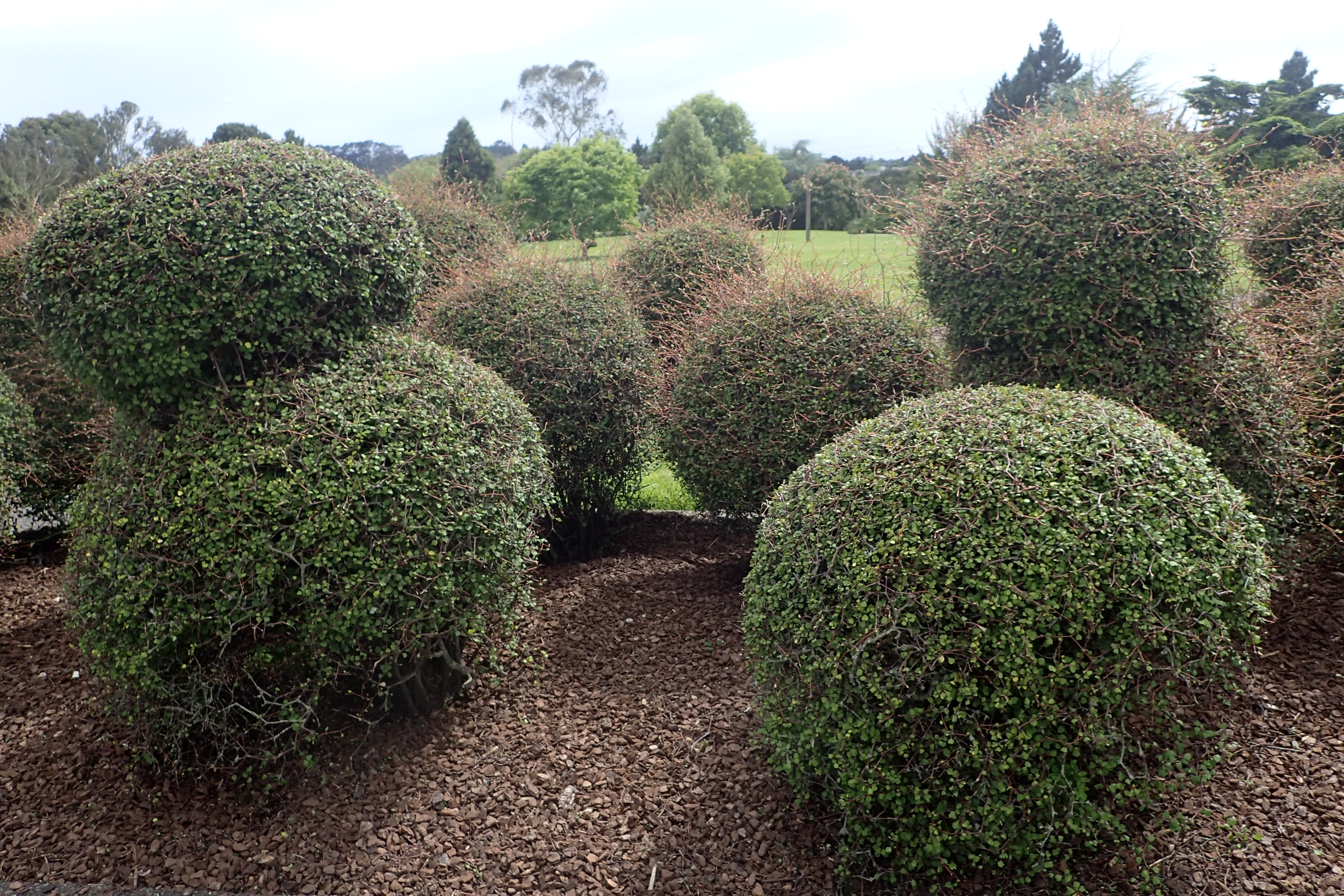 Muehlenbeckia astonii in Auckland Botanic Gardens